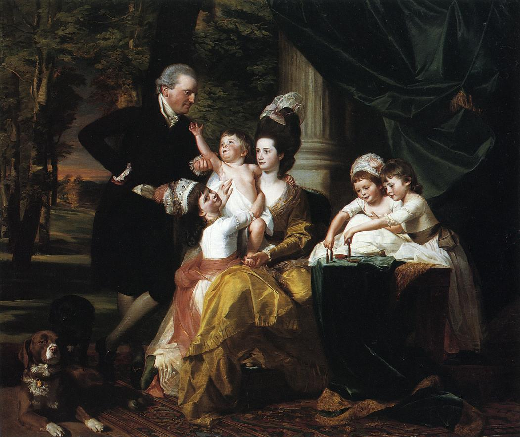 Portrait of Sir William Pepperrell and his Family, by John Singleton Copley, oil on canvas. Courtesy of the North Carolina Museum of Art, Raleigh, North Carolina.